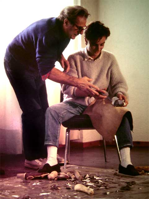 French prehistorian Jacques Tixier teaches his students